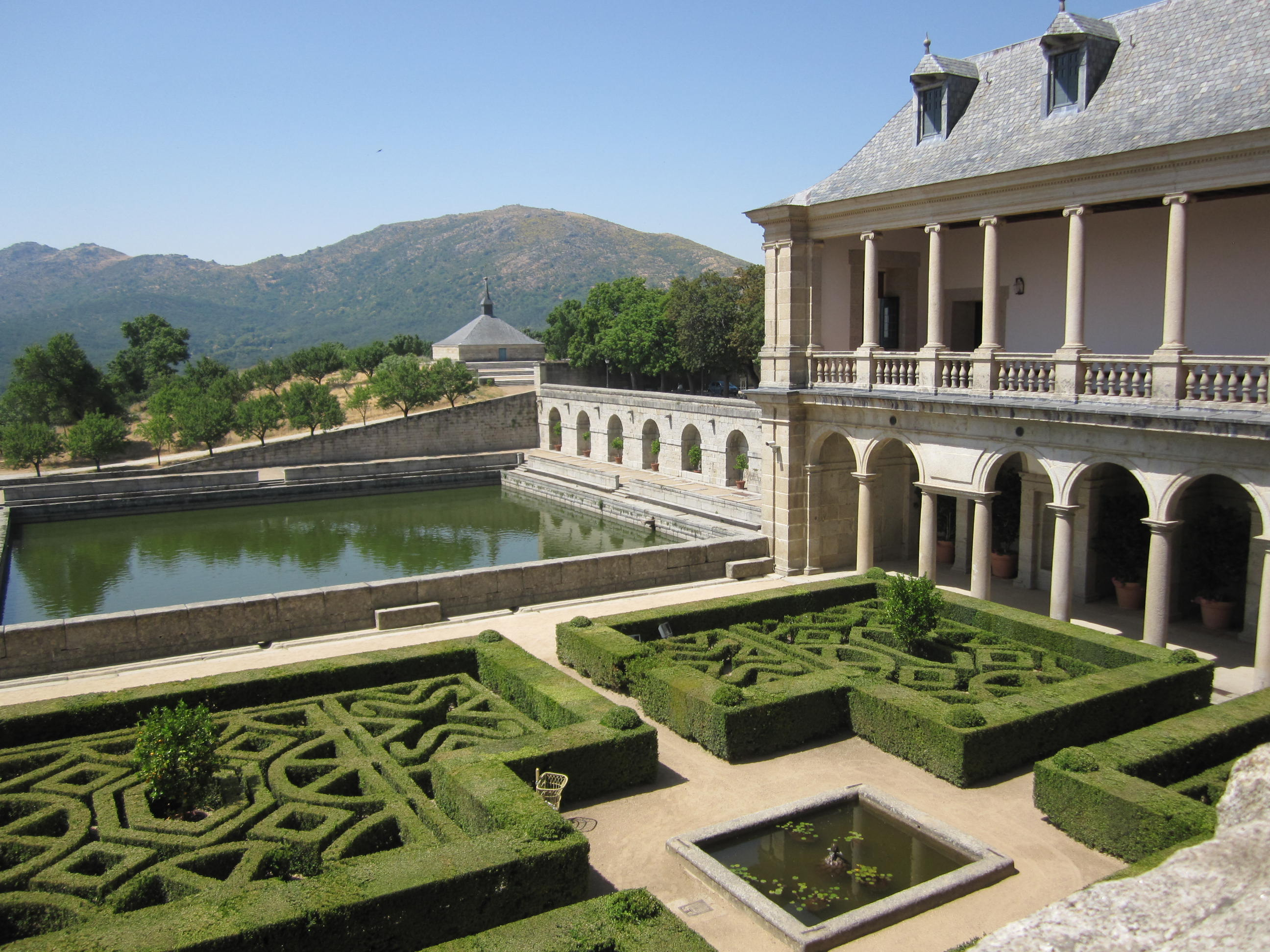 El Escorial garden pool, this feature was used to cool the palace and preserve ice